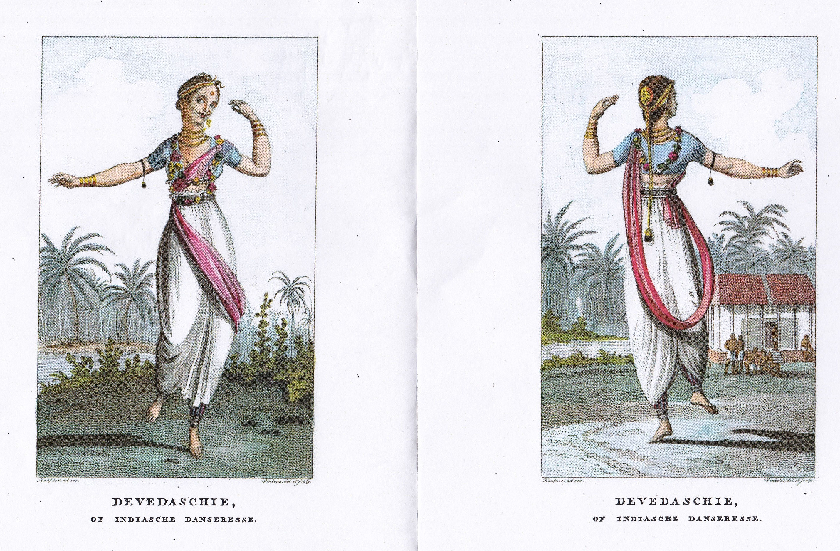 Drawings of a temple dancer from Jacob Haafner, “Reize in eenen Palanquin, of Lotgevallen en merkwaardige aanteekeningen op eene reize langs de kusten Orixa en Choromandel” (1808), chapter 5.